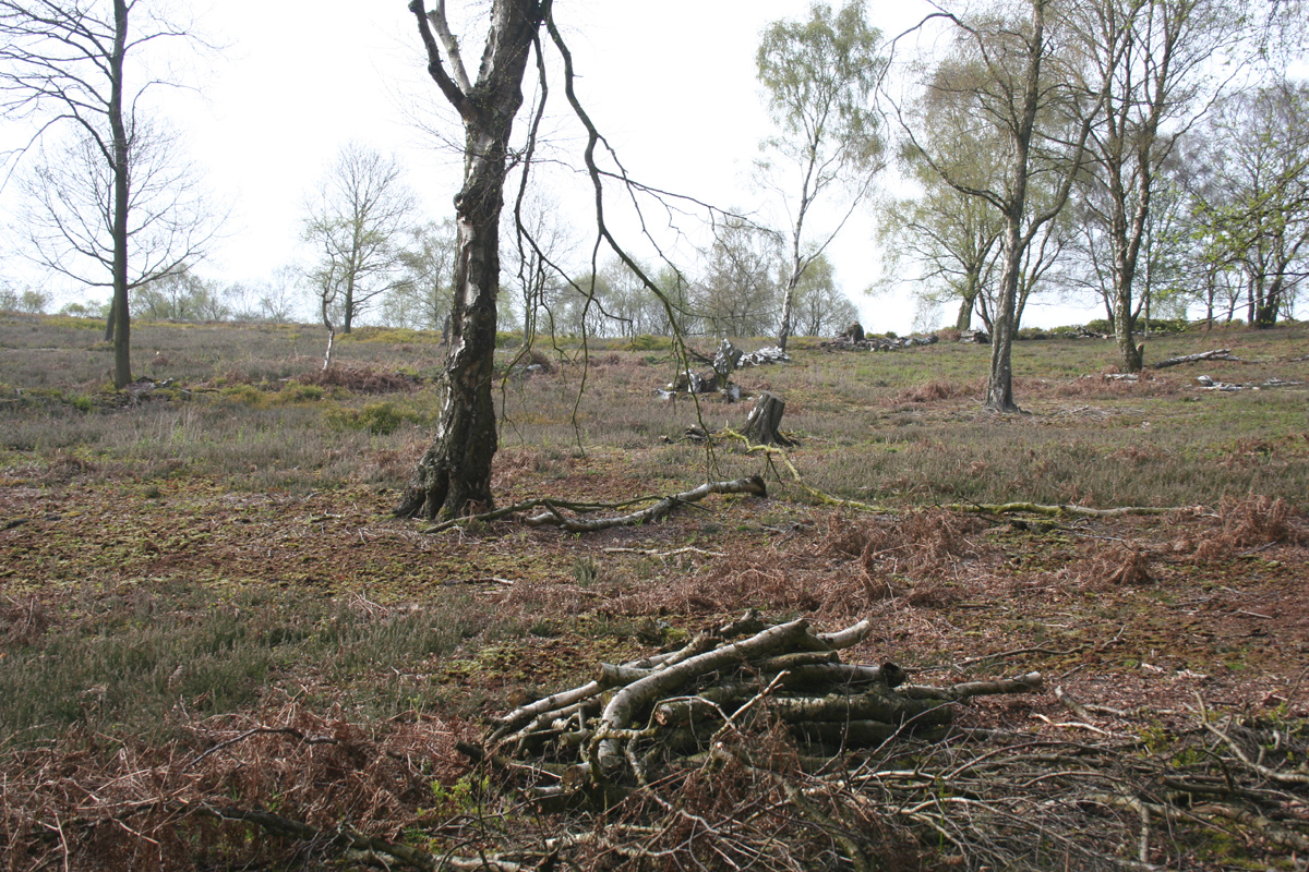 Tree felling for heathland regeneration at Bickerton Hill (SJ 496 525)